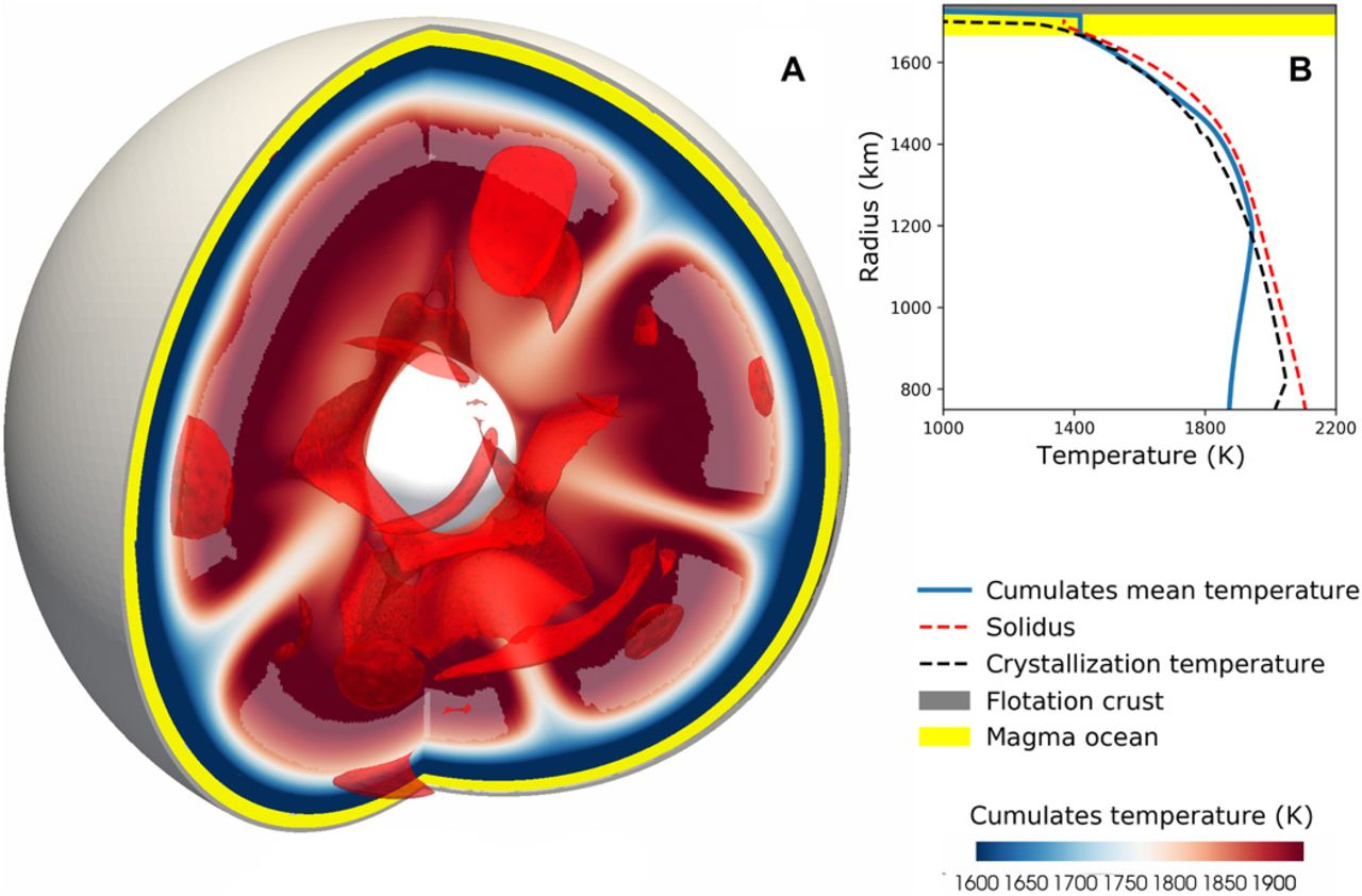 "(A) Snapshot of the temperature field in the cumulates after 100 Ma for our fiducial case using kcrust = 2 W m−1 K−1 and ηref = 1021 Pa s (Fig. 2, blue curve). Convection in the cumulates occurs while the magma ocean (yellow area) is still solidifying and the plagioclase crust (gray area) is still growing. (B) Corresponding laterally averaged temperature profile (blue line). In hot upwellings, the temperature exceeds the solidus [red dashed line in (B)], causing partial melting [pale areas in (A)] that results in heat piping."